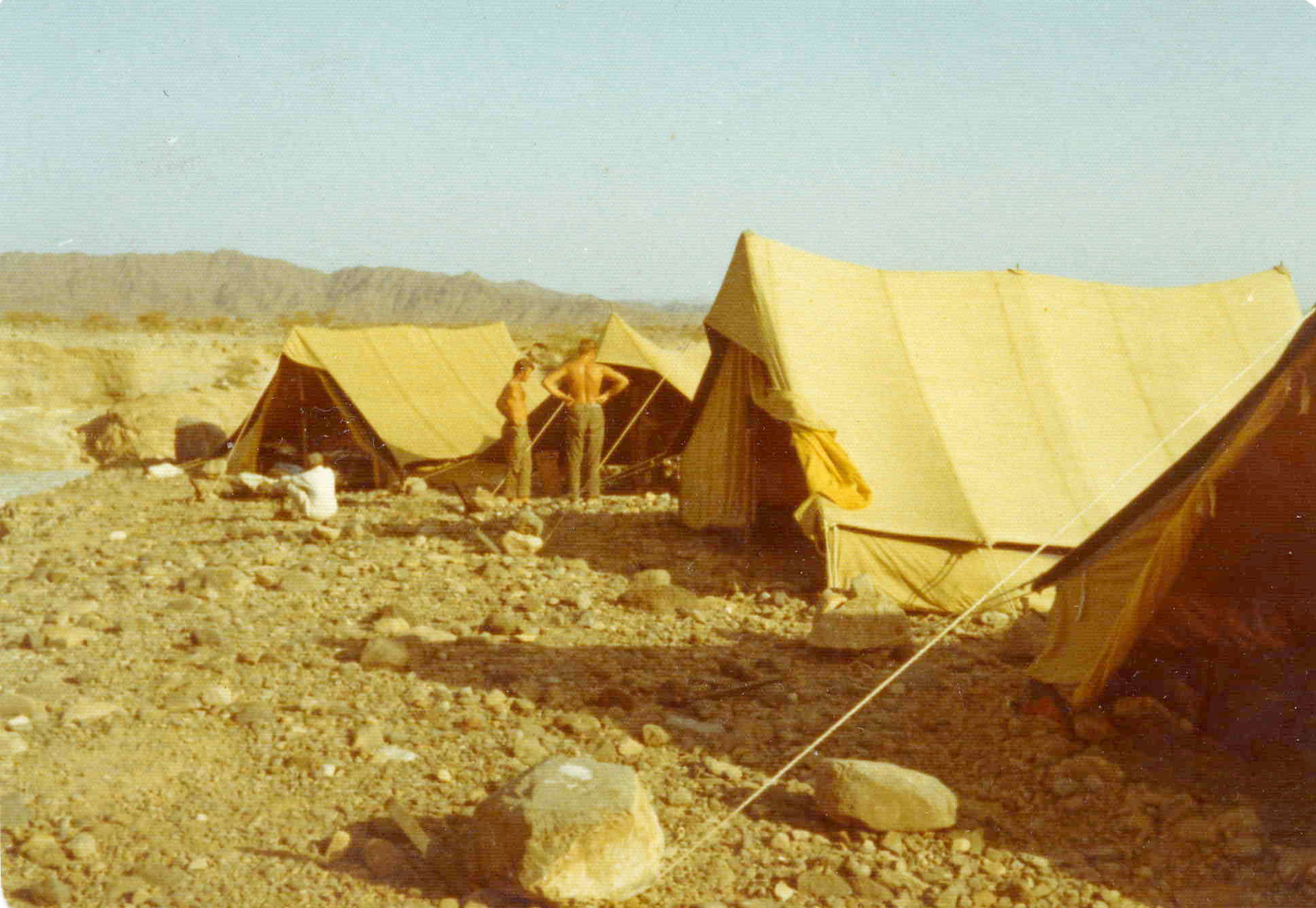 The bivouac area of the troop of Sultan's Engineers undergoing the final exercise in Wadi Nakhl, before operations in Dhofar. In view, Ken Orrell and Alec Tomlin. That night, around midnight, in the still air, we heard a small child screaming, again and again. All of us left our tents and stood under the stars listening to the child's pitiful cries. The loud screams emanated from Nakhl and soon faded across the wadi and over the jebel. Our jundis ( soldiers ) explained that a Djinn was taking a child from the village as compensation because the people of Nakhl had failed to complete their side of a bargain which they had made with the Djinn. There was nothing anyone could do!